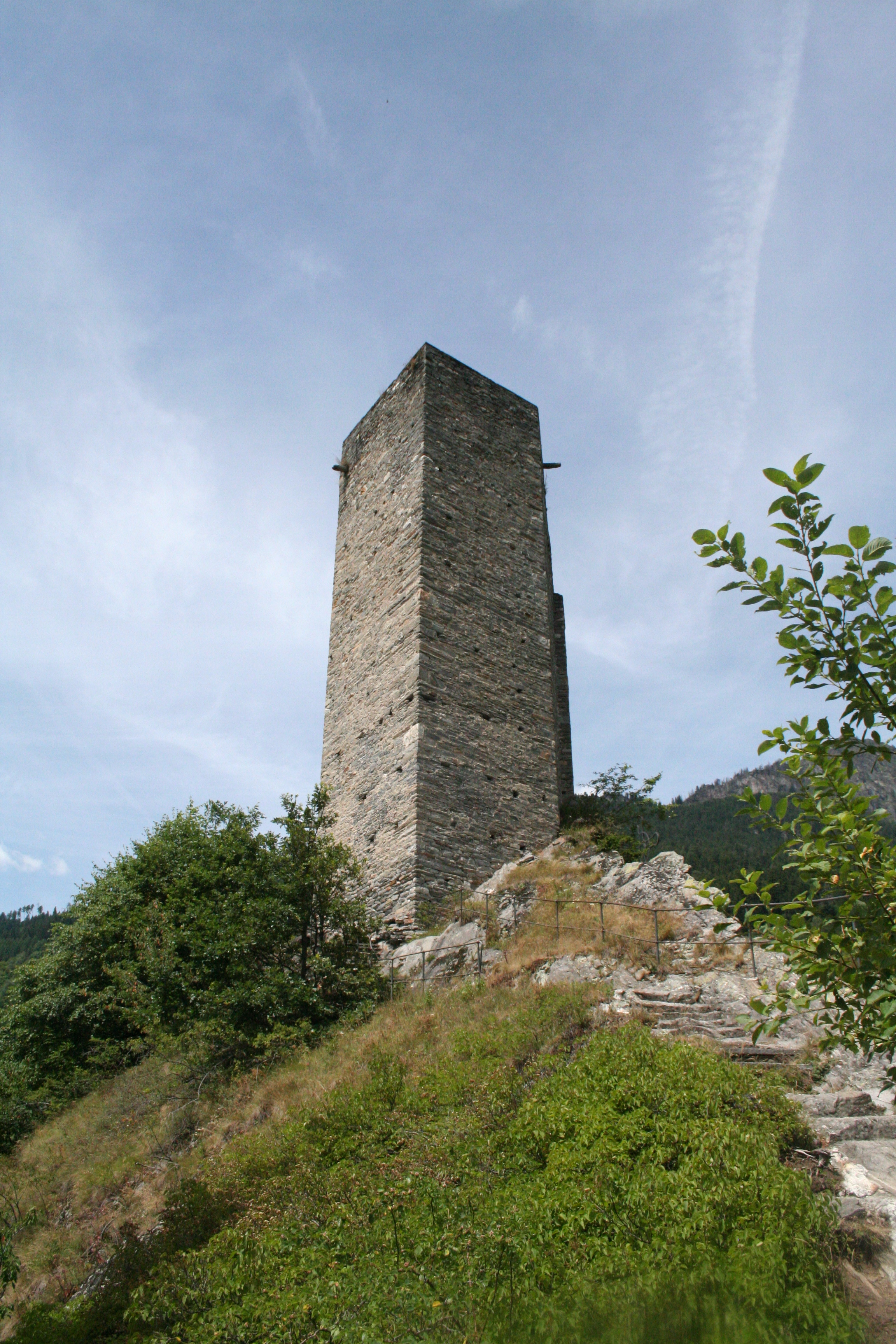 Tower Santa Maria in Calanca: Ansicht von SE